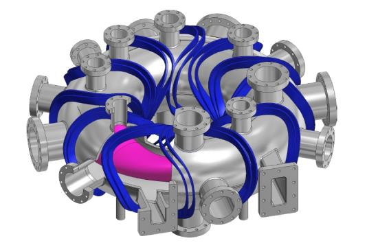 SCR-1 (Stellarator of Costa Rica 1) vacuum vessel drawing